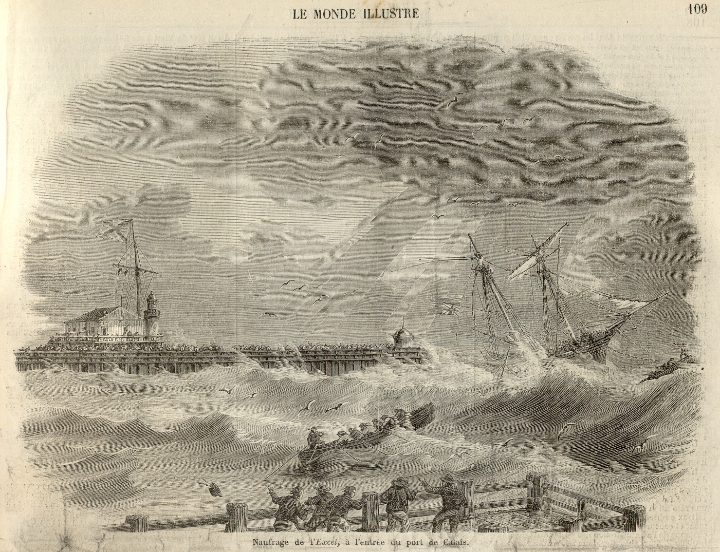 Sinking of the ship Excel in Calais, 1858